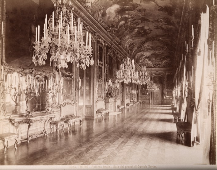 Giacomo Brogi (1822-1881) - "Turin - Royal Palace. The dining room, frescod by Daniel Seyter". Catalogue # 3684.